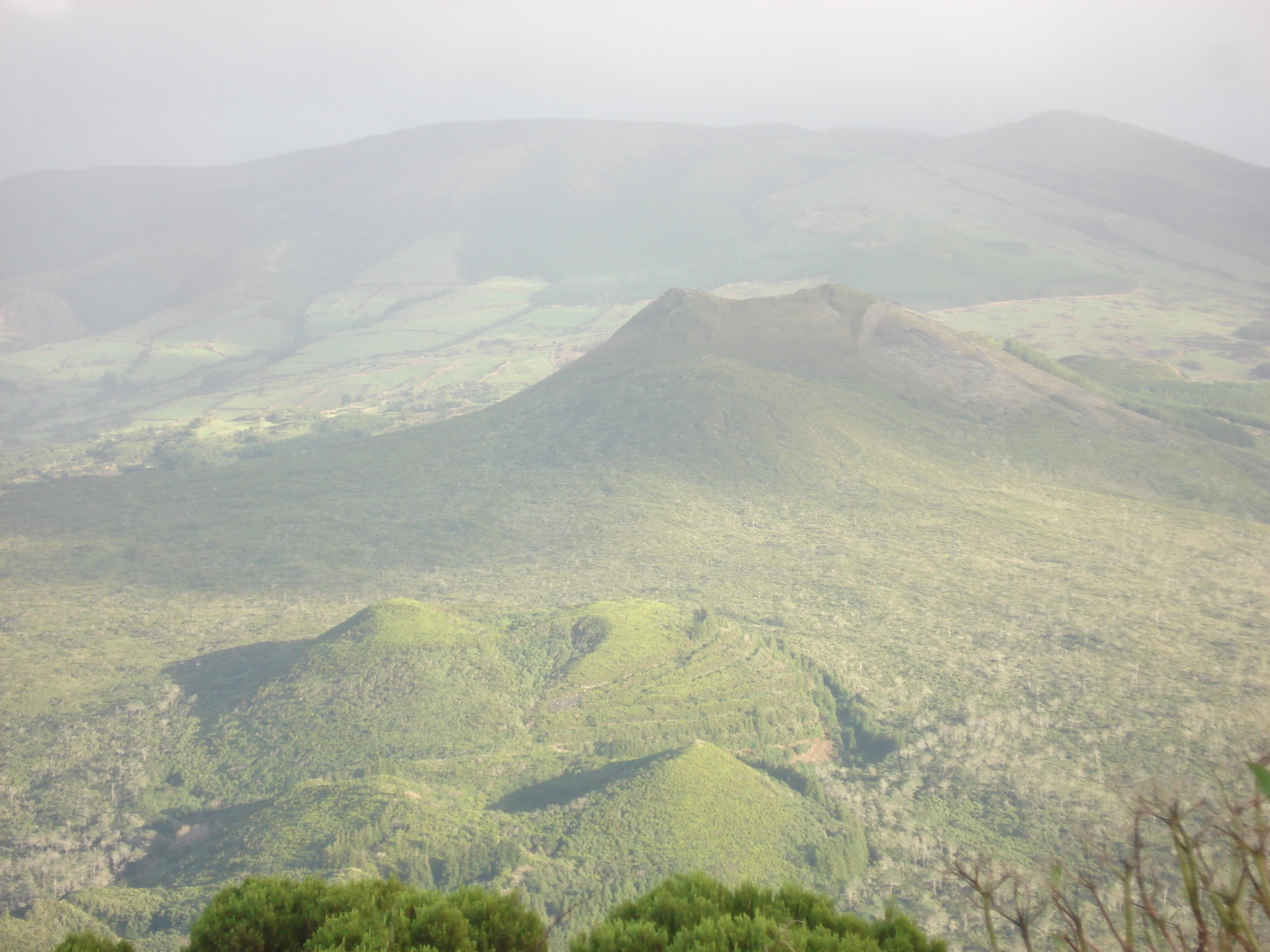 Cone alignment on the flank of the Cabeço Gordo, on the island of Faial, Azores